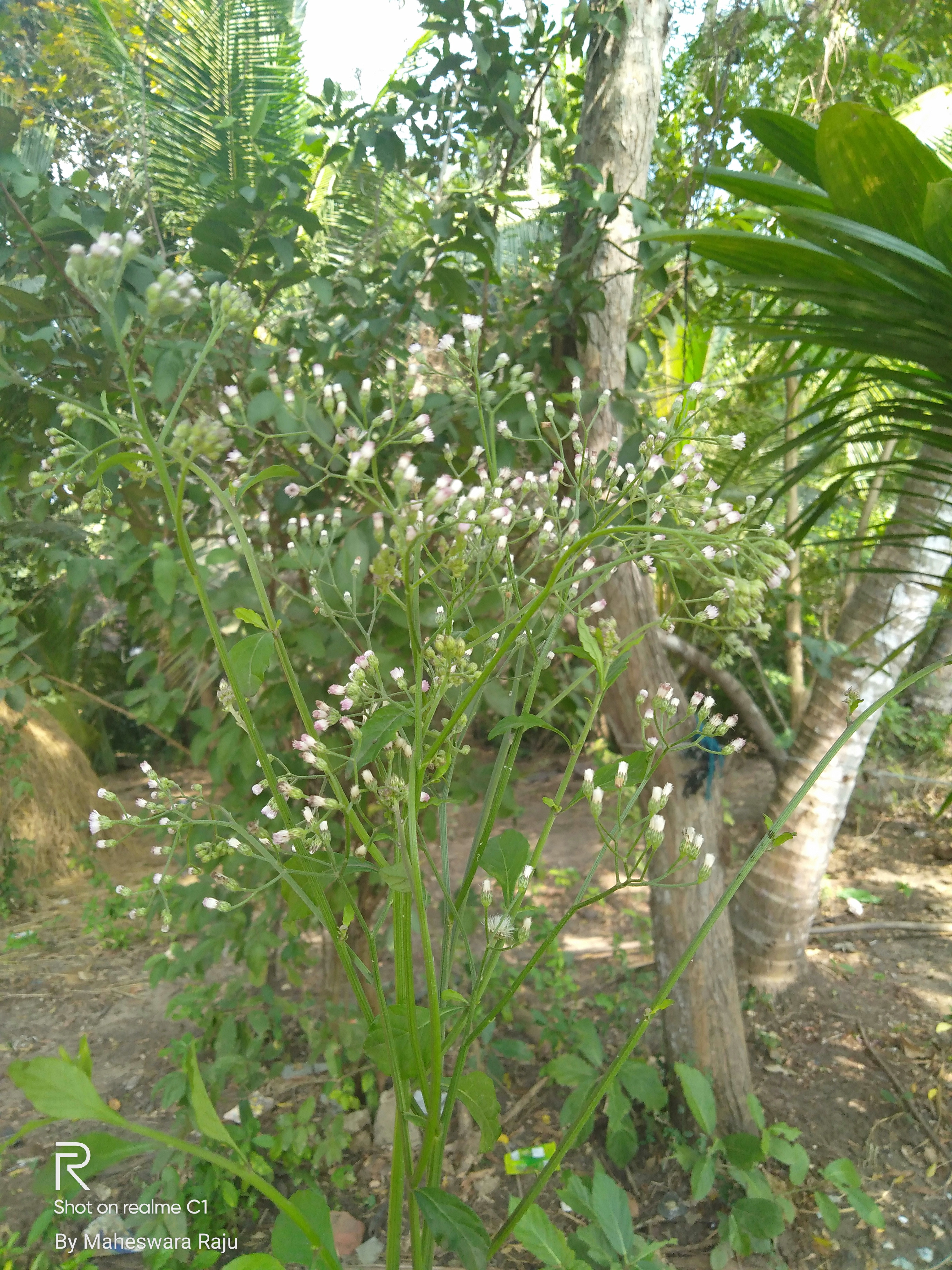 Parthenium